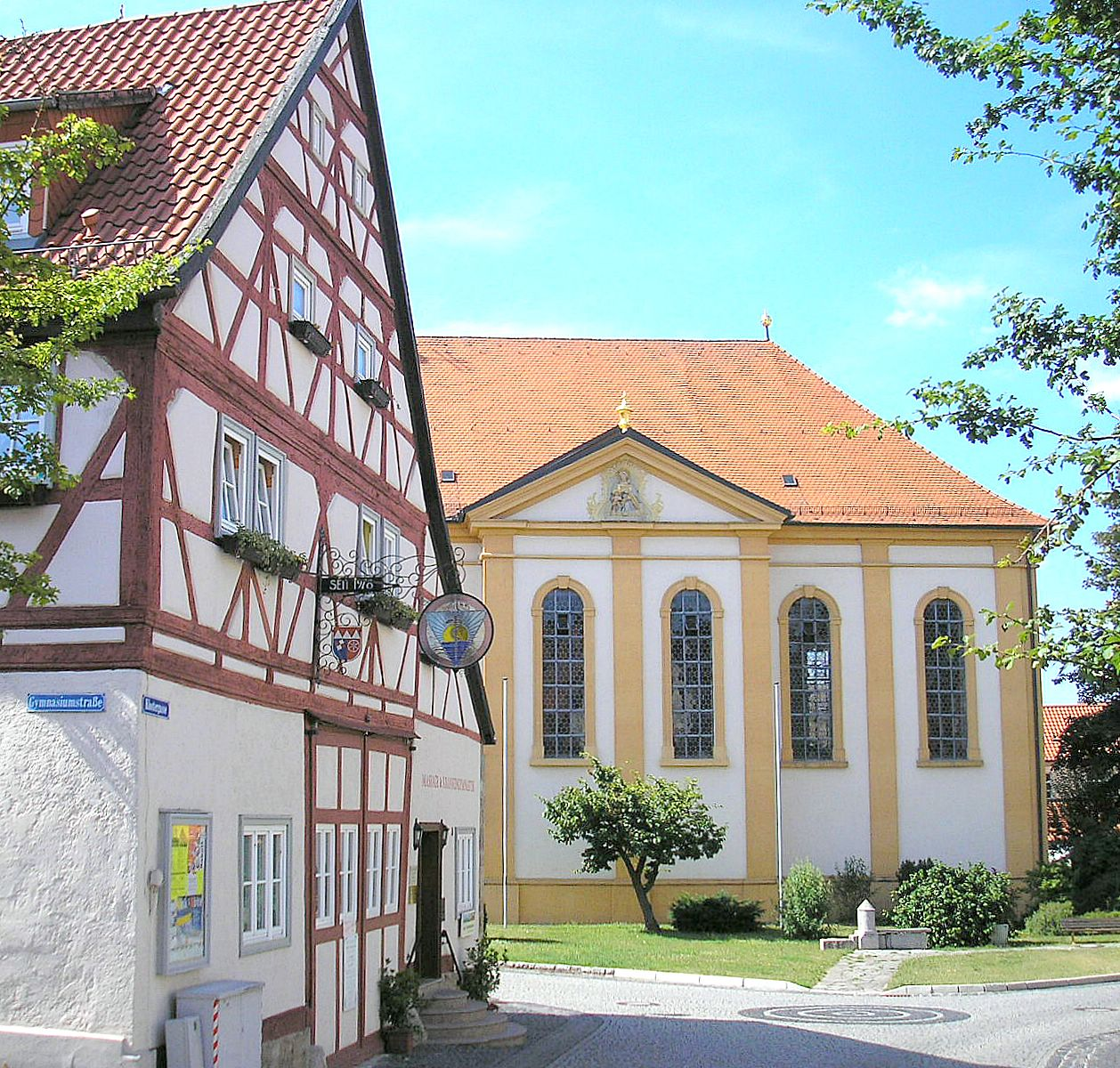 Münnerstadt (Landkreis Bad Kissingen, Lower Franconia, Germany). Abbey church St. Michael and timber frame building